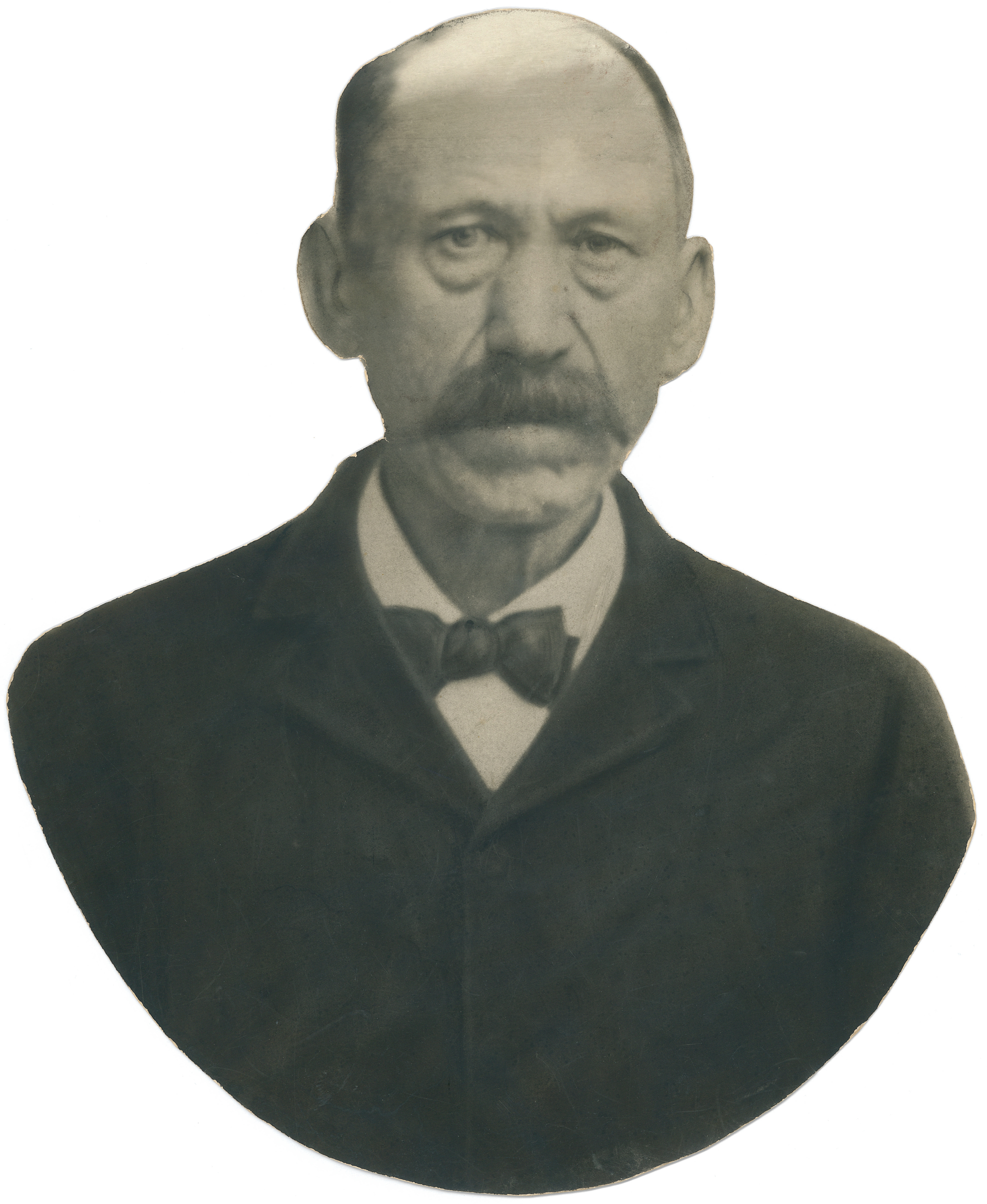 Portrait of Franciscus Frishert (Maastricht, 11 November 1844 - Breda, 27 March 1910) made ca. 1905-1908 by photographer Bernard de Jong